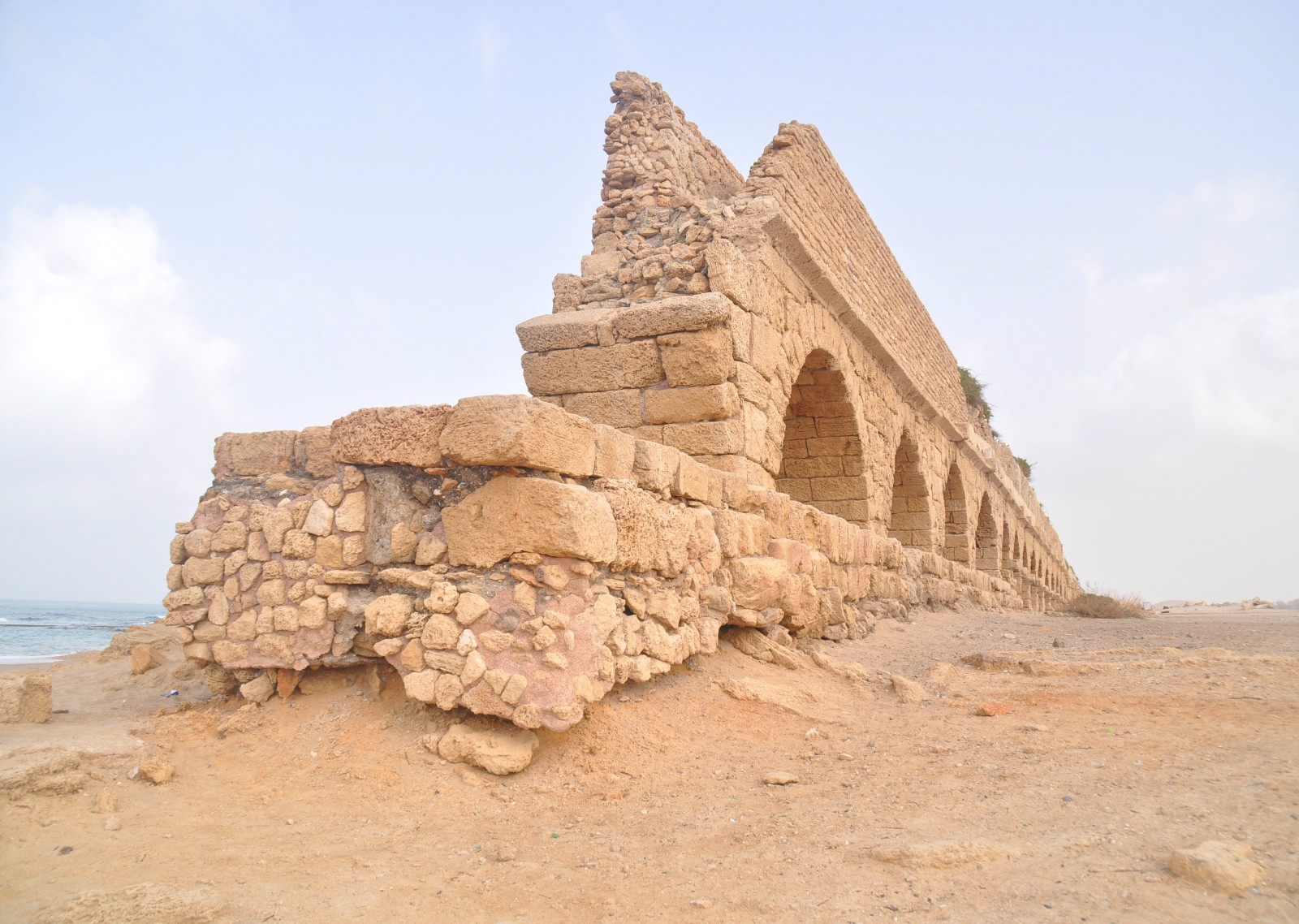 Archeological sites of Israel